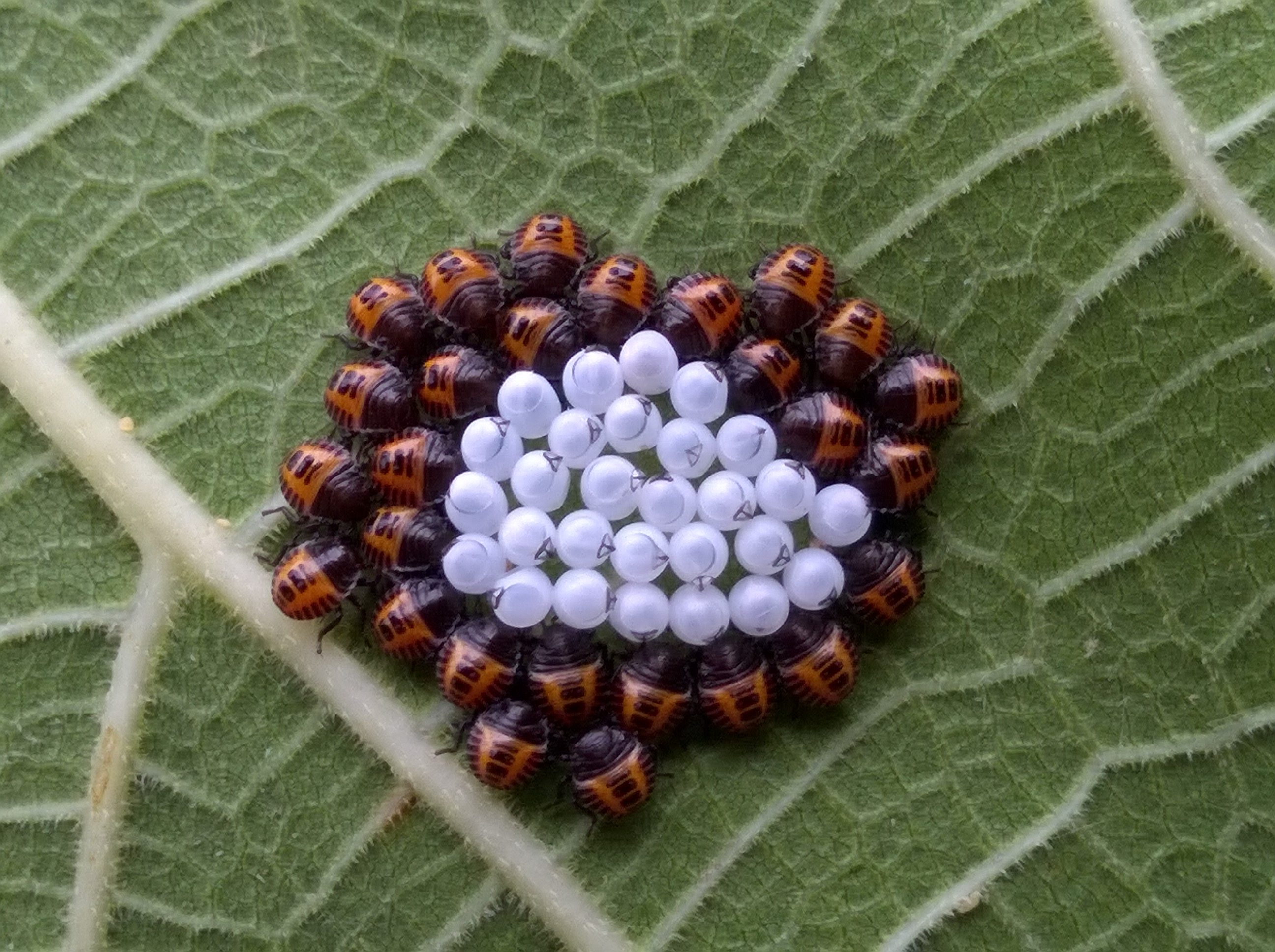 Halyomorpha Halys neanides on fig leaf. This bug of Asian origin is an invasive species. Out of the eggs, they group in a circle